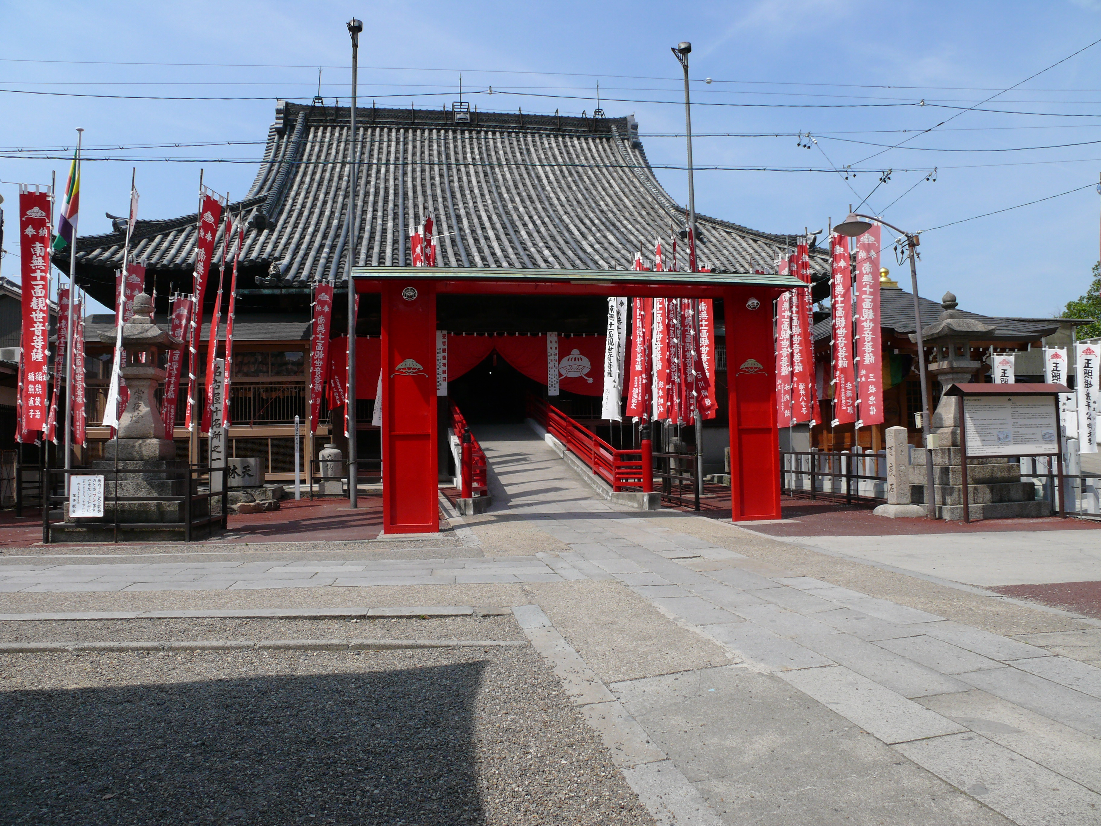 The temple of Kasadera Kannon in the city of Nagoya, central Japan.